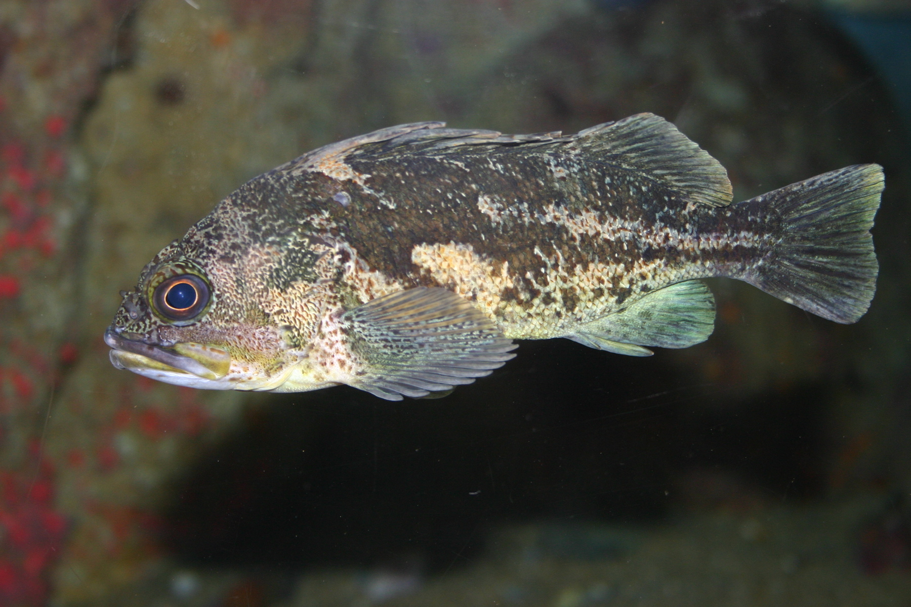 This Copper Rockfish (Sebastes caurinus) can be distinguished from other rockfish such as the Black and Yellow Rockfish (Sebastes chrysomelas), Gopher Rockfish (Sebastes carnatus), or China rockfish (Sebastes nebulosus) by its half white lateral line.